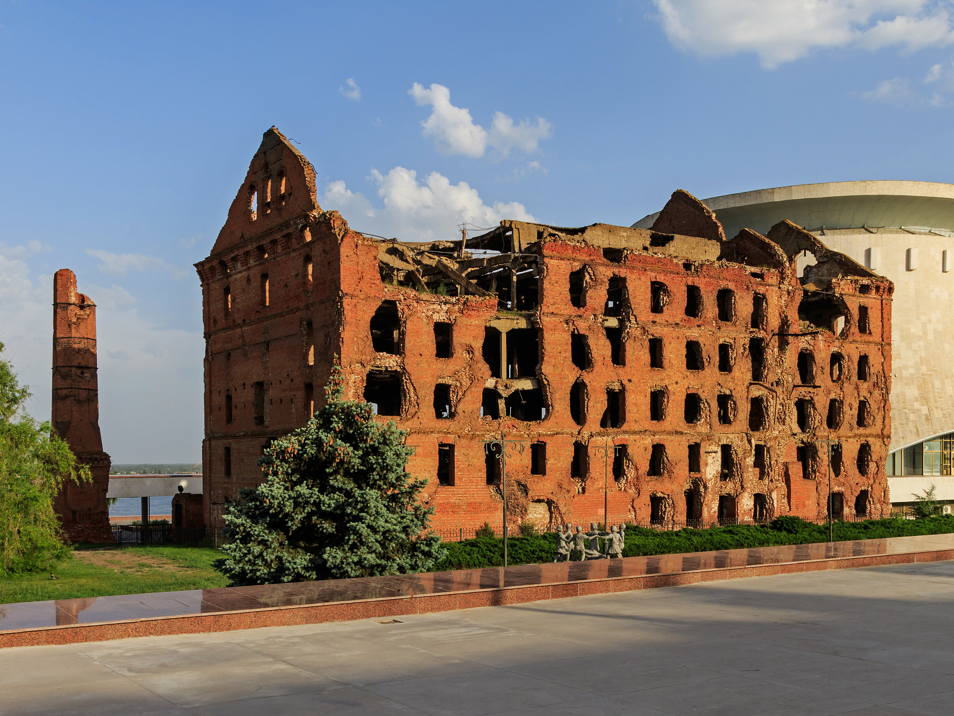 Gergardt Mill in Volgograd, Russia